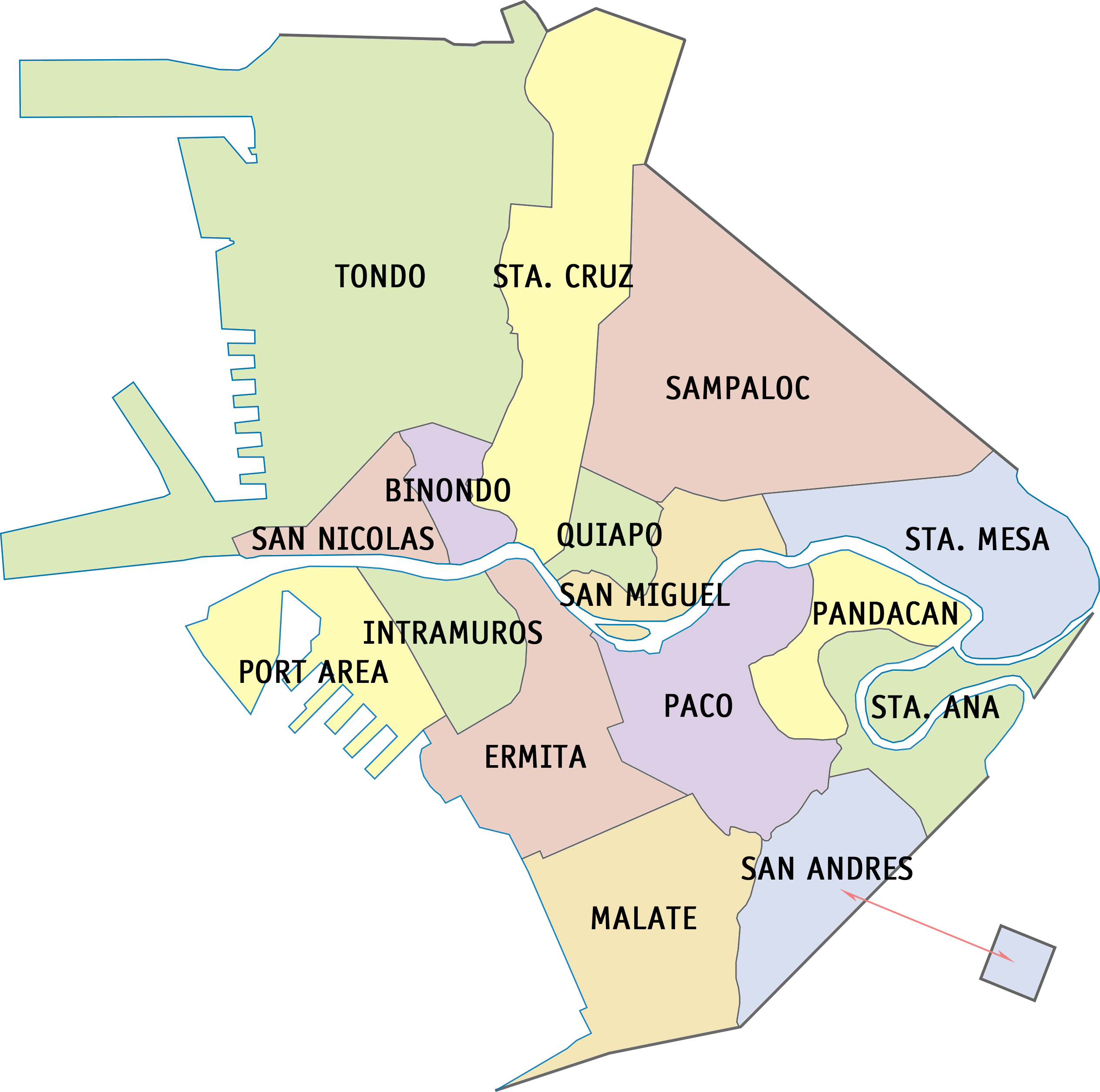 Map of Manila with districts